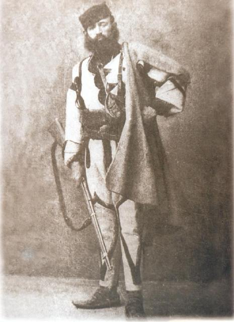 Portrait of IMARO member Gyore Spirkov